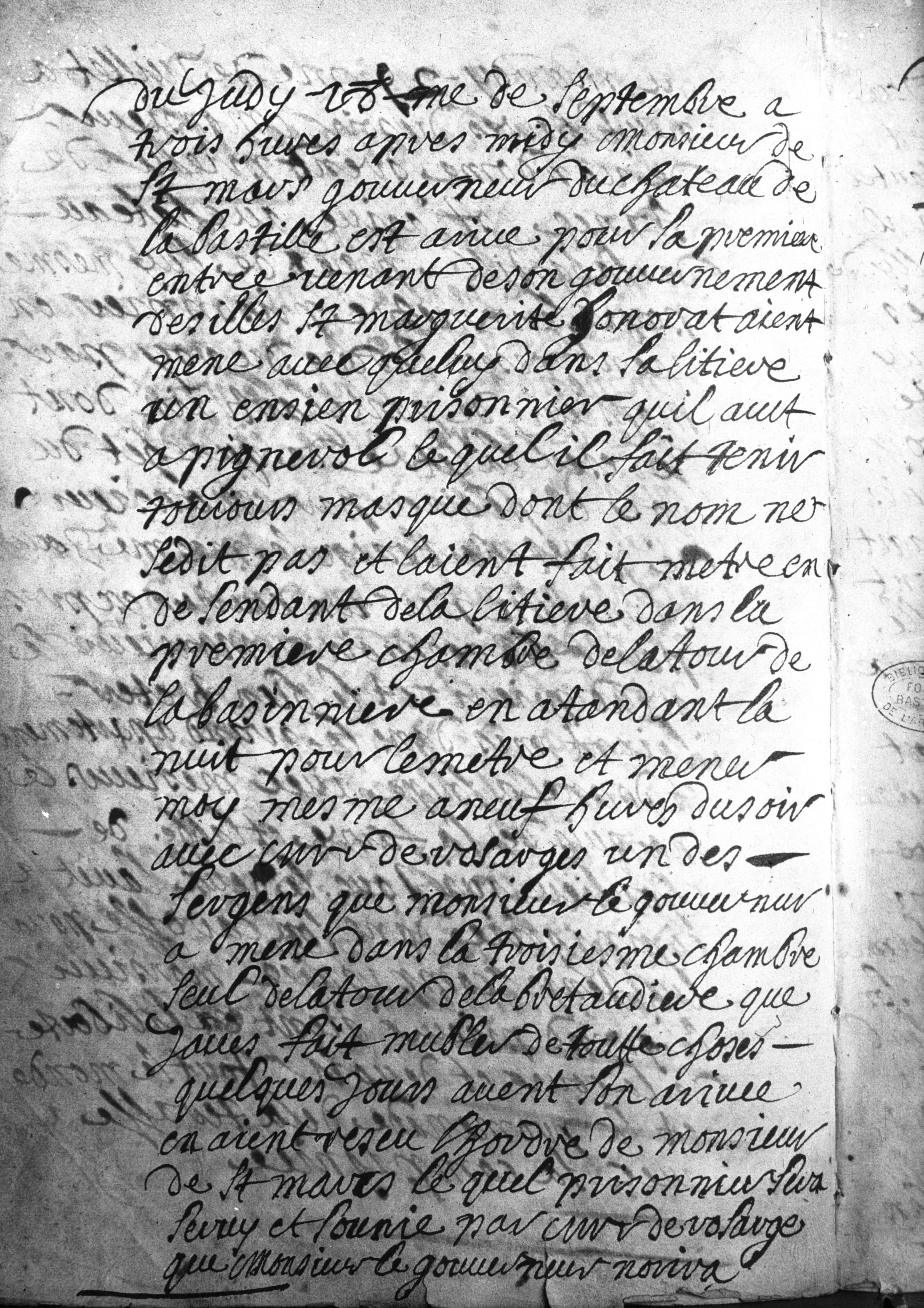 The incarceration of the Man in the Iron Mask as recorded in the Bastille prison register on 18 September 1698.